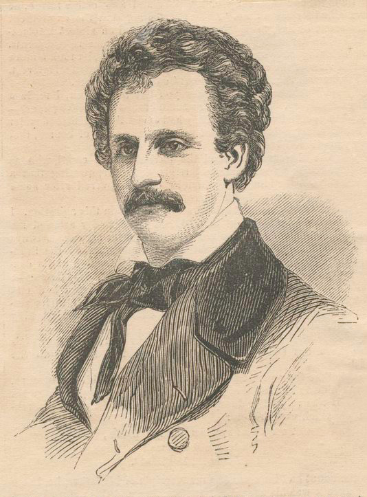 Edmon Blankman (c.1830-1895), American lawyer